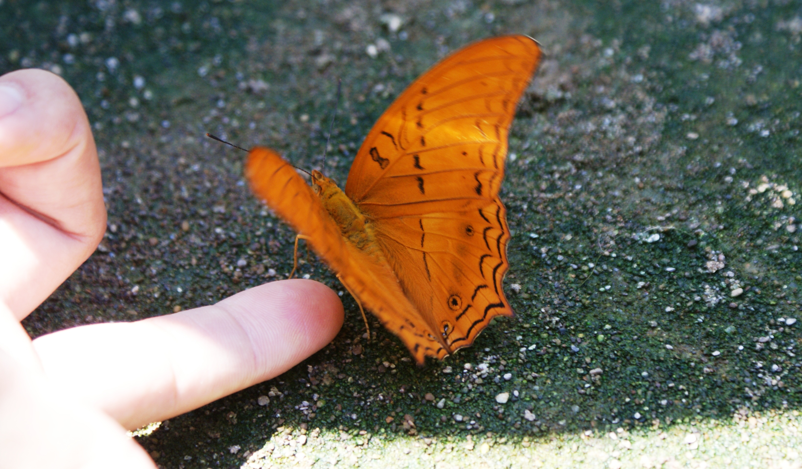 Butterfly at Bantimurung National Park, Maros, South Sulawesi, Indonesia